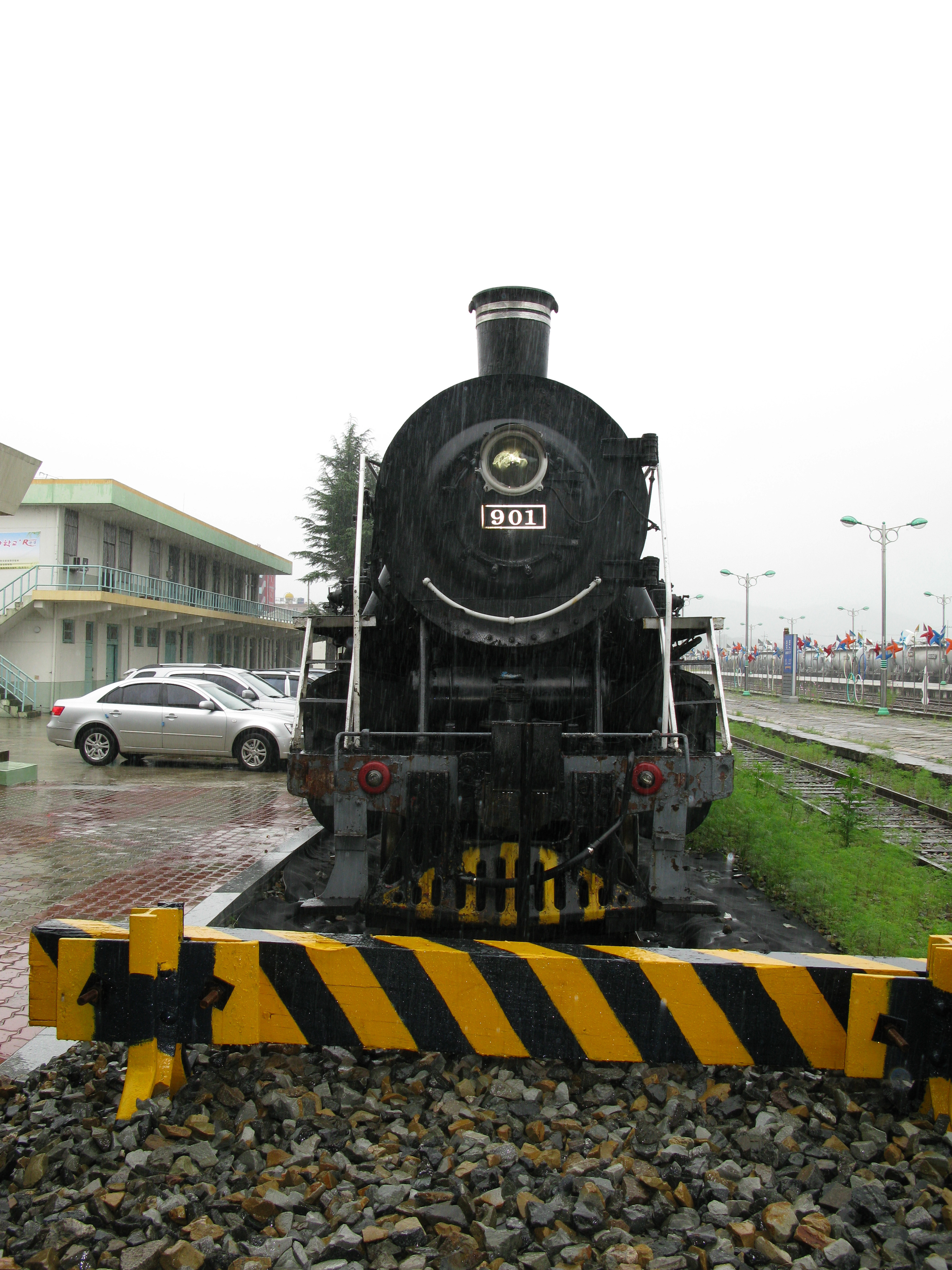 Steam Locomotive 901